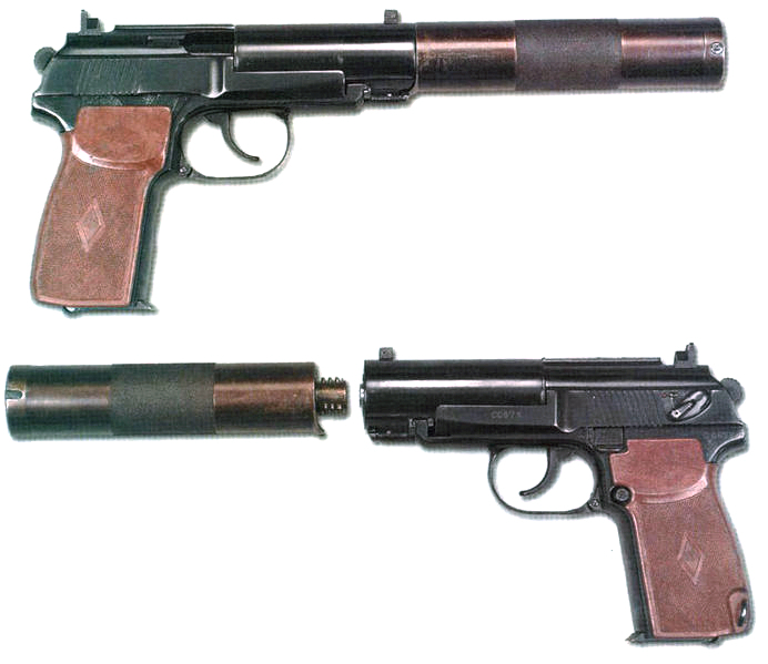 The PB (Pistolet Besshumnyy, "Silent Pistol") pistol, a silenced pistol from the USSR.